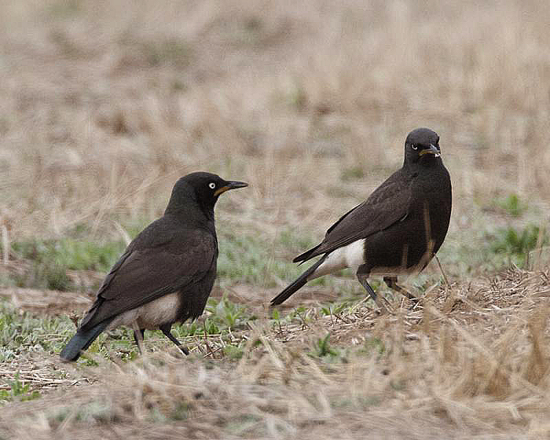 African Pied Starling Spreo bicolor 16th. August 2011 Marievale, Gauteng, South Africa 690V9827